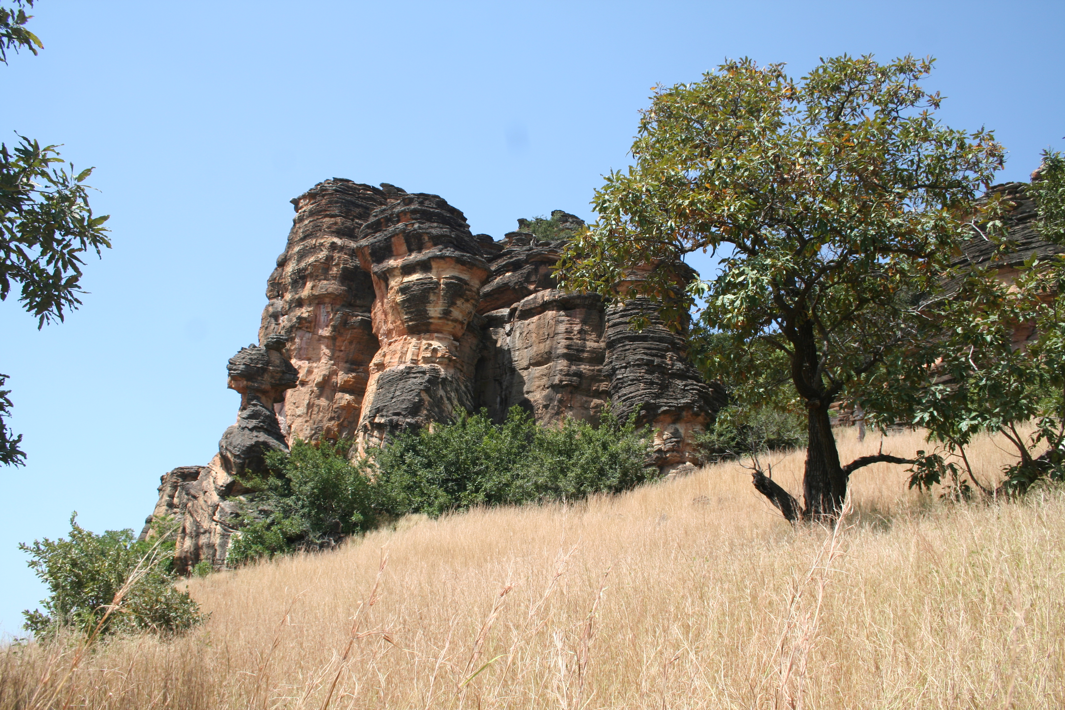 Western hills of Chaine de Gobnangou, Tambarga, S Burkina Faso